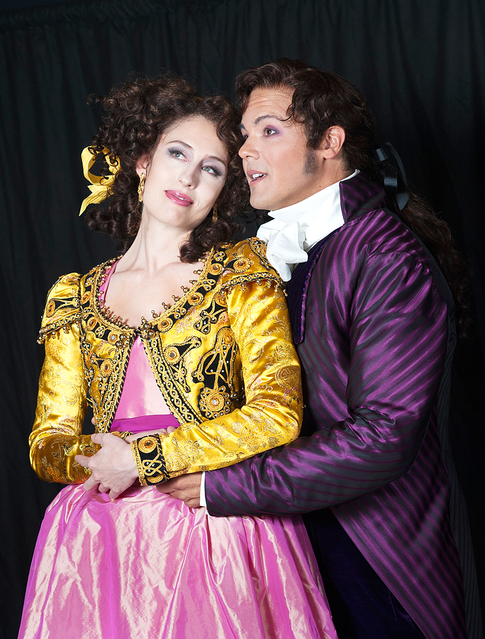 The Barber of Seville (c) Mark Kiryluk for Central City Opera